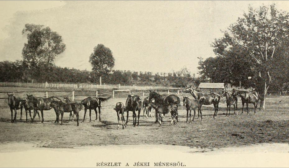 Stud farm, Jéke